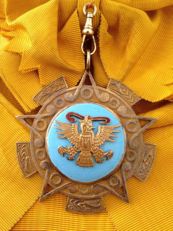 Sash and sash badge of the Order of the Aztec Eagle, United States of Mexico